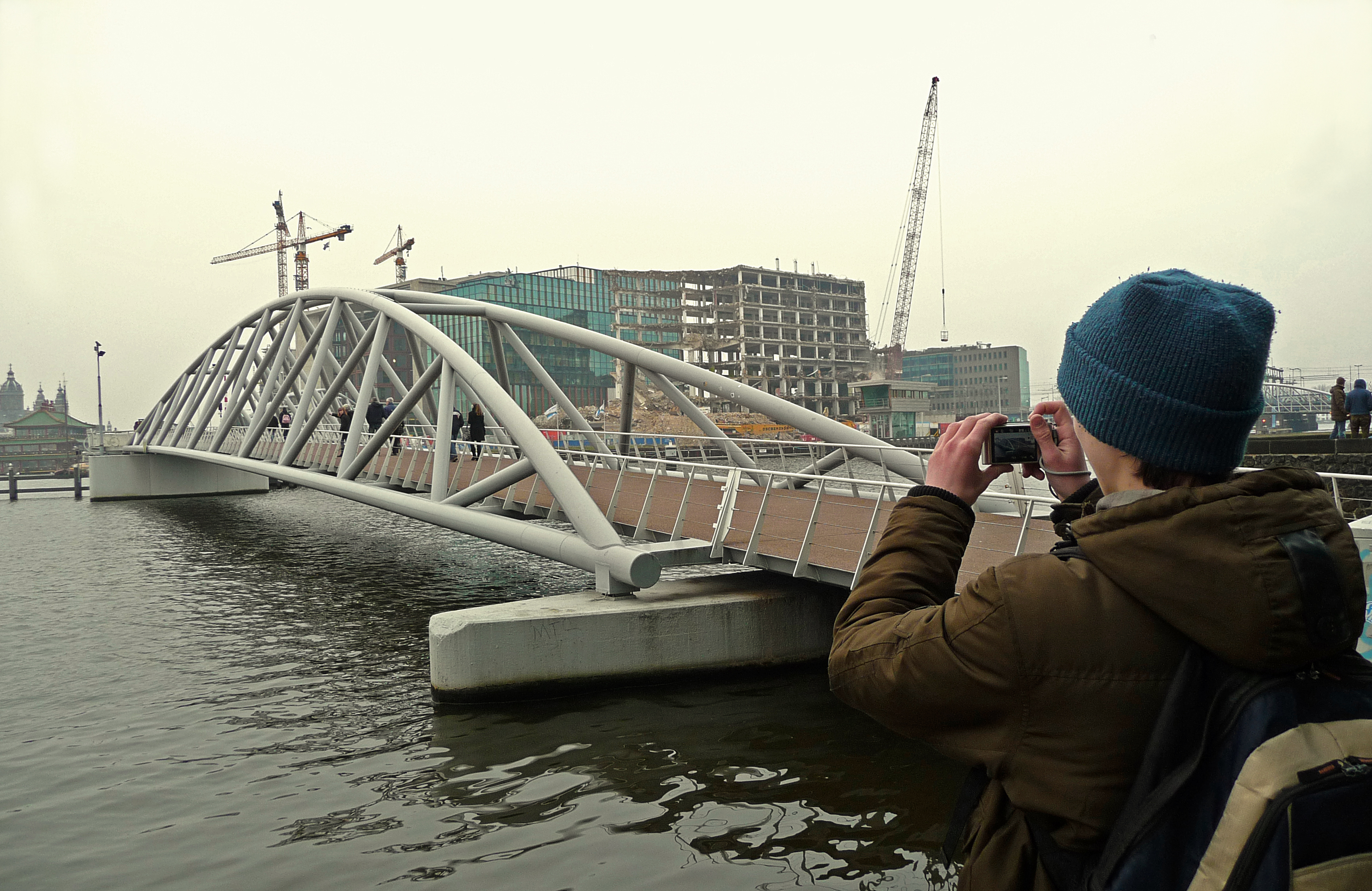 a view on the modern metallic foot- and bicycle-bridge over the Oosterdok water, to the Nemo museum, and a view on the demolition of Post Building CS in February 2011, Amsterdam